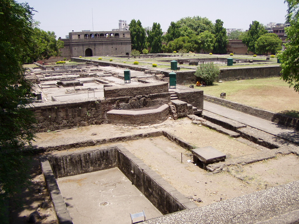 A water reservoir in Shaniwar wada to store water for all occupants of the fort. Just behind is a well used by male occupants of the fort (as per a plaque installed nearby).